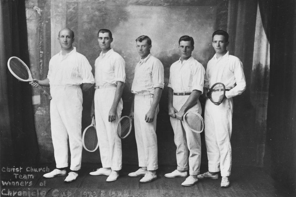 Members of the Christ Church tennis team who won the Chronicle Cup, Childers, 1923 Left to right: W. H. Simmington, N. D. Gee, H. J. Brand, H. Plett, J. O. Moore. (Description supplied with photograph.).